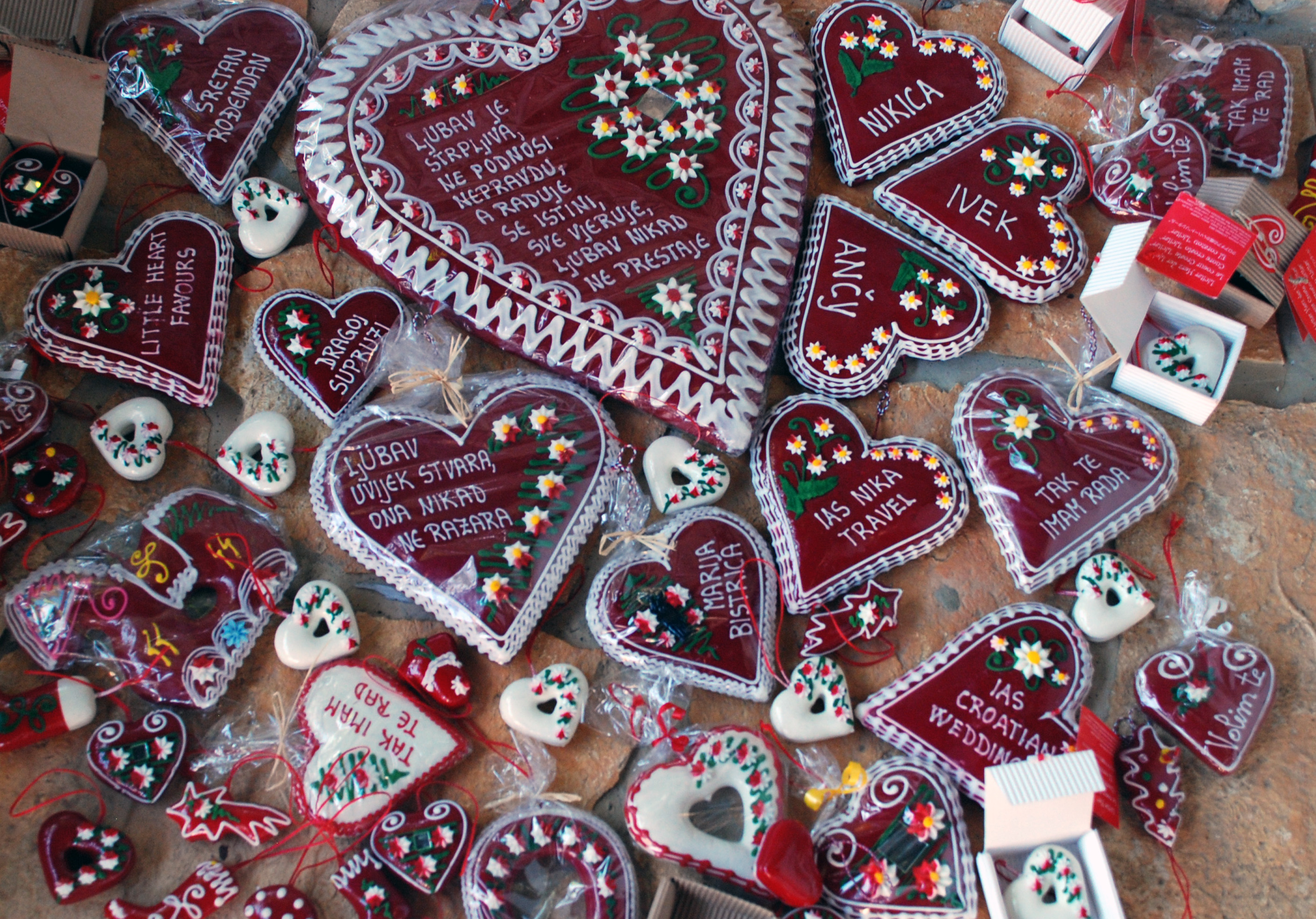 Another picture of Croatian licitars available in Croatia